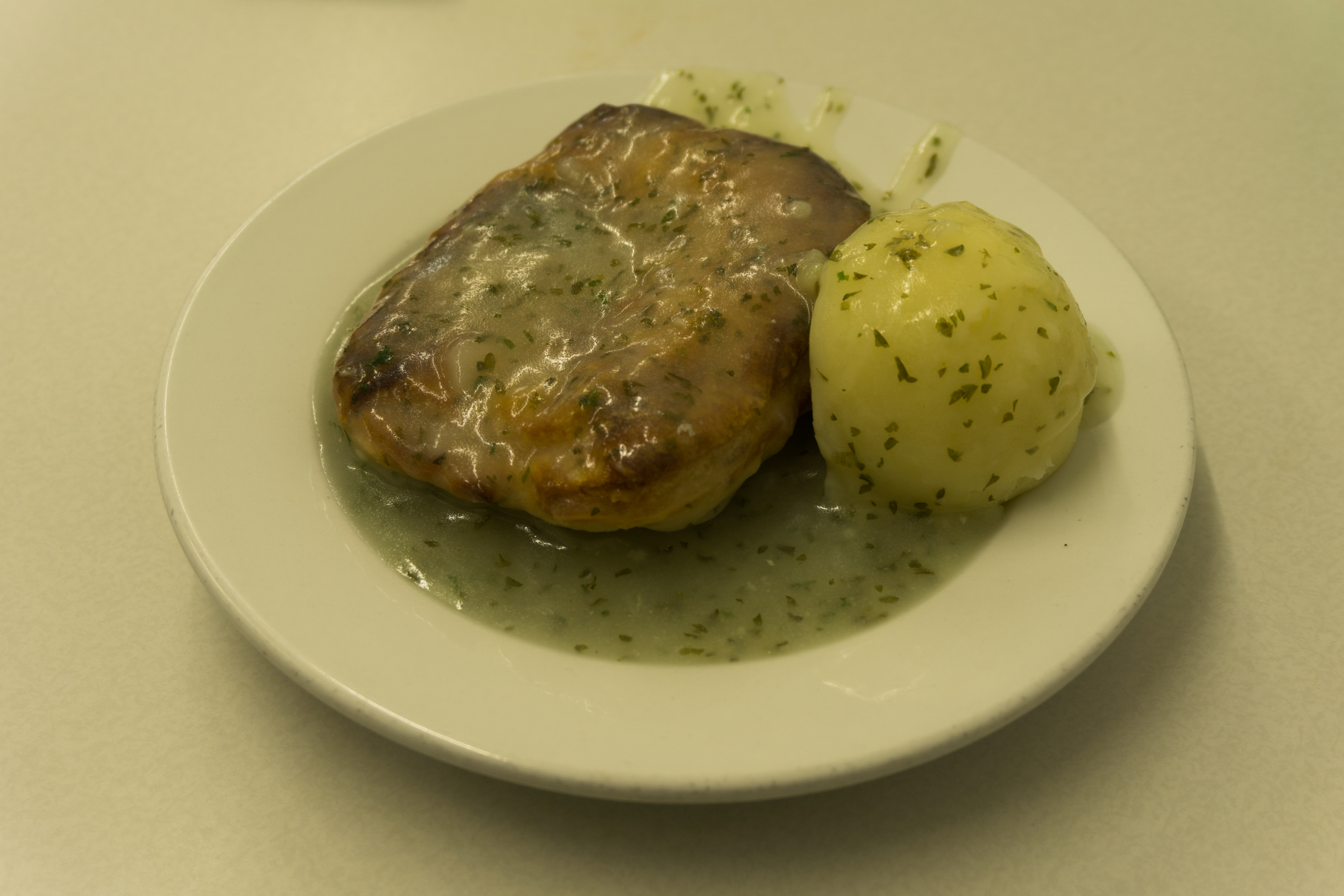 Minced meat pie served with mashed potatoes and parsley sauce called liquor. The traditional working class food is now one of the specialities of London.